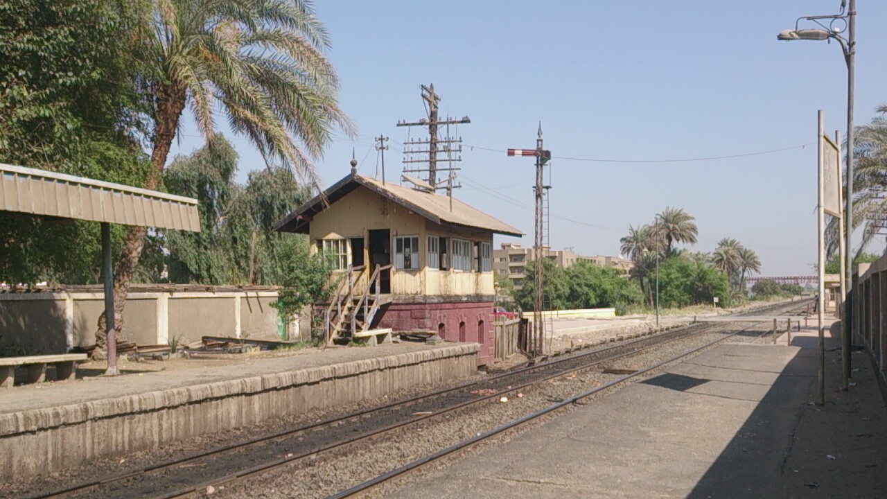 Manqabad station